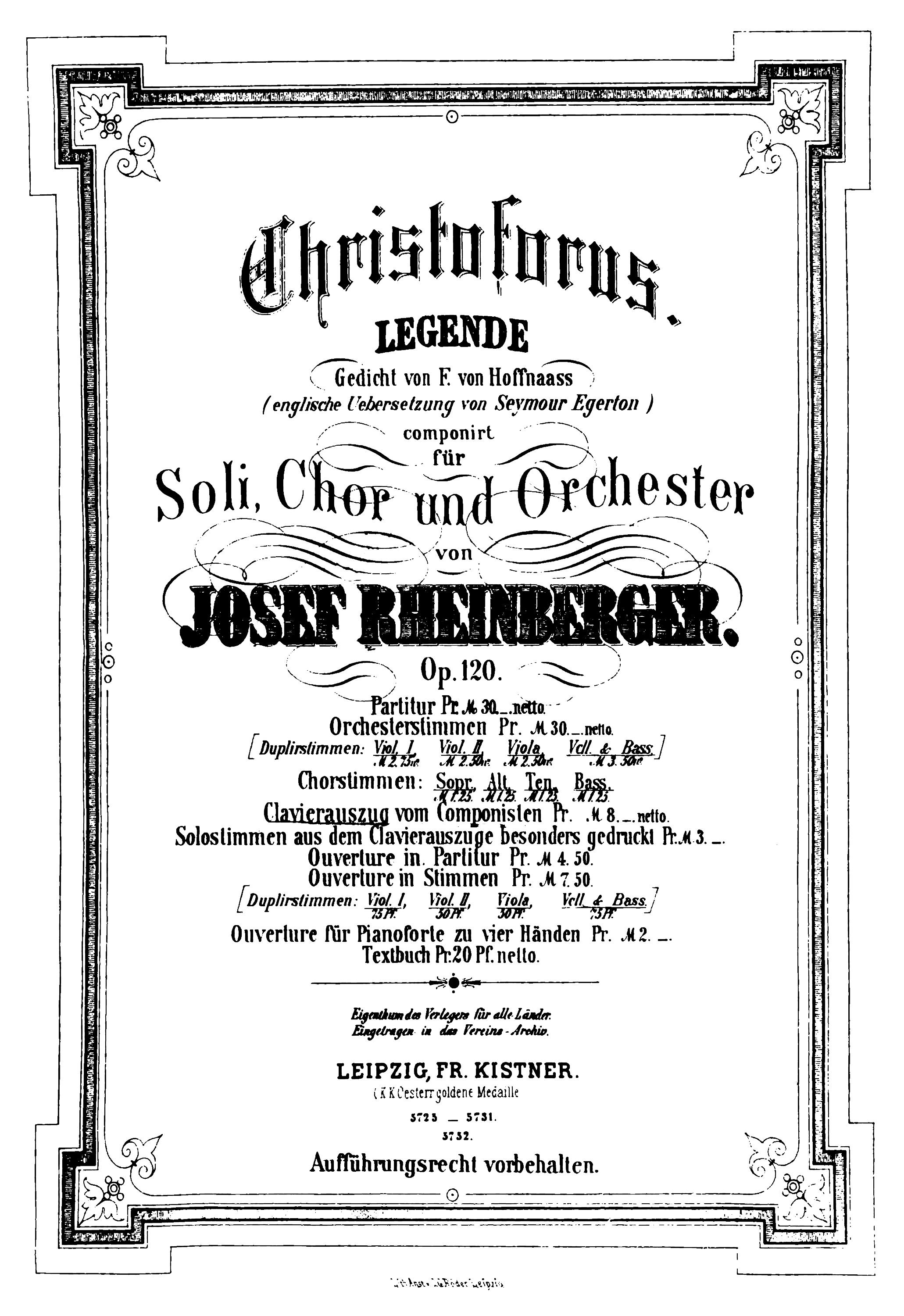 Cover of the first edition of "Christoforus" op. 120 by Josef Rheinberger at Fr. Kistner Verlag in Leipzig (1881)